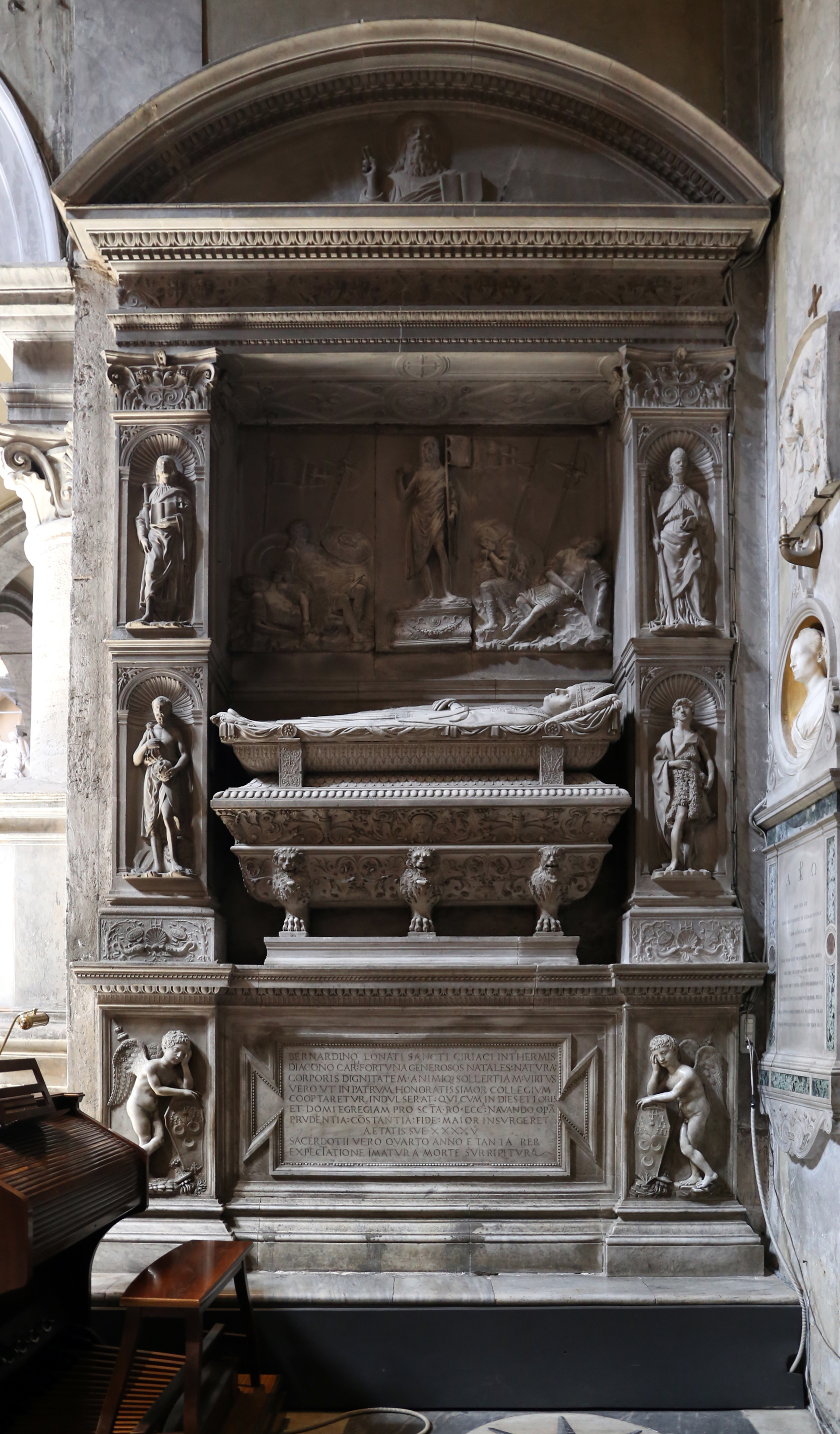 Santa Maria del Popolo (Rome) - Transept